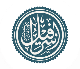 Archangel in Islam, Israfil calligraphic logo without background.